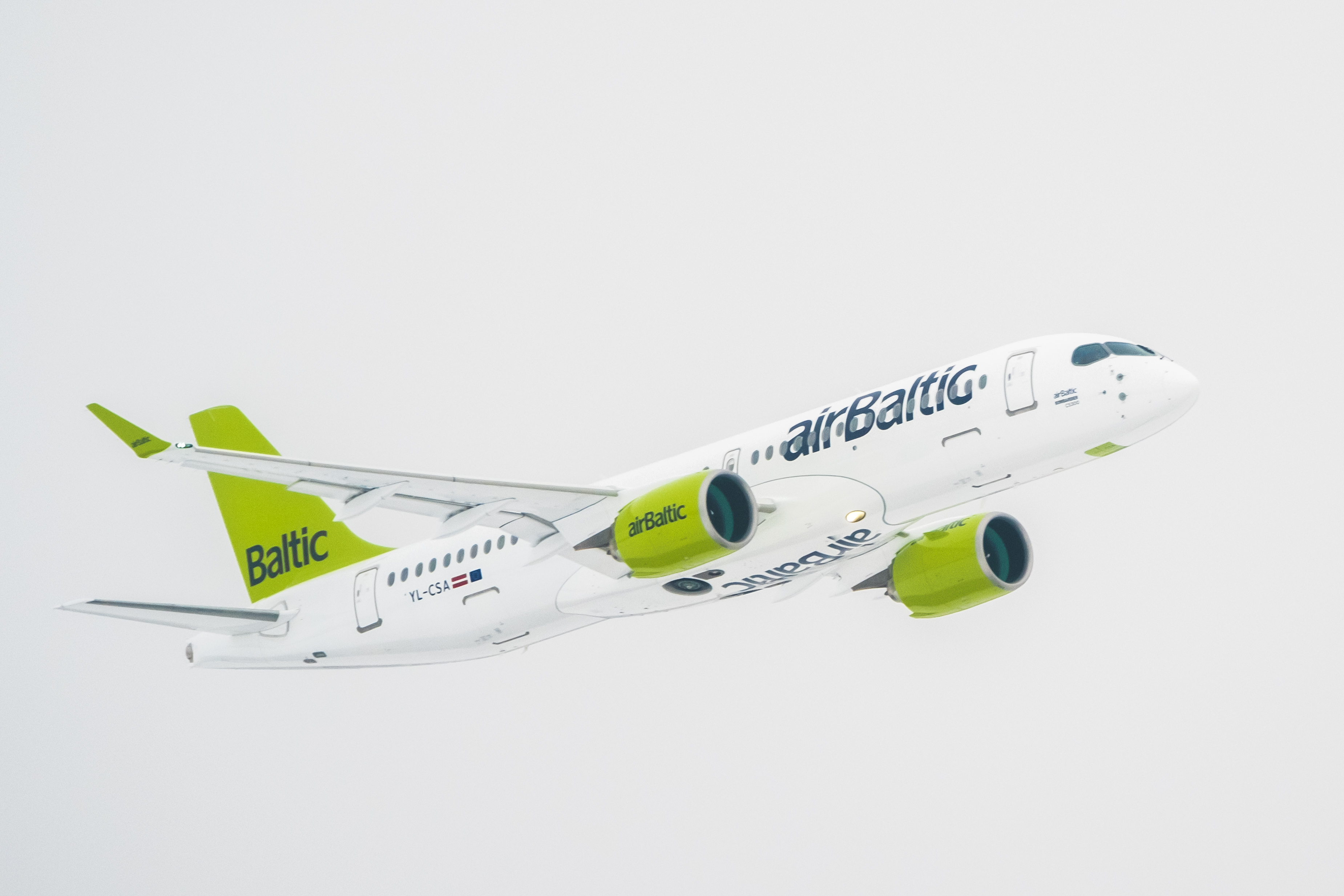 First CS300 arrives in Riga